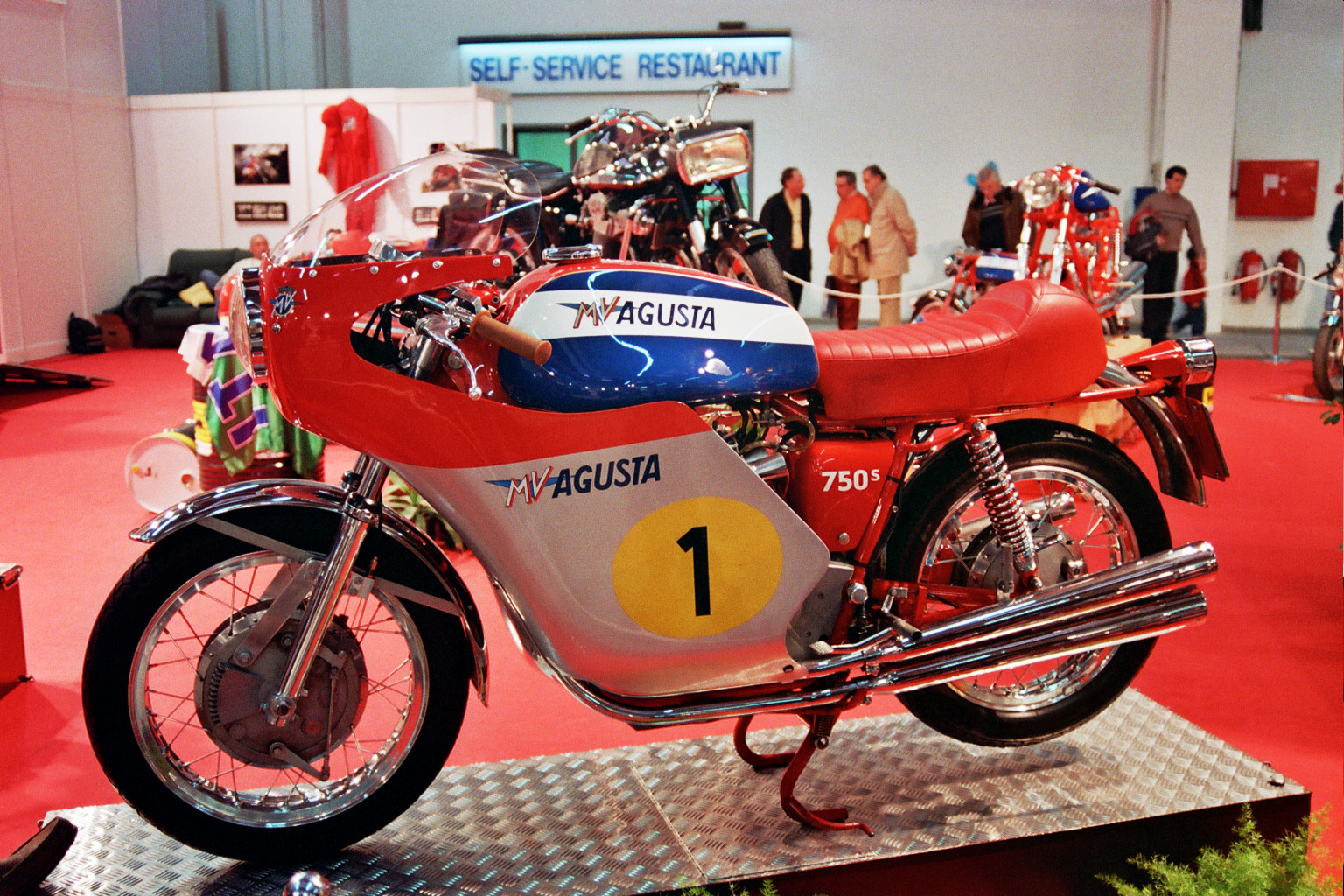 MV Agusta 750 S in Auto Retro expo (Barcelona).